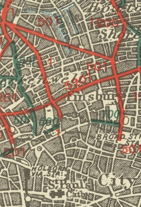 Original route of the A1 in Central London at the time that road classification was formally announced in 1923